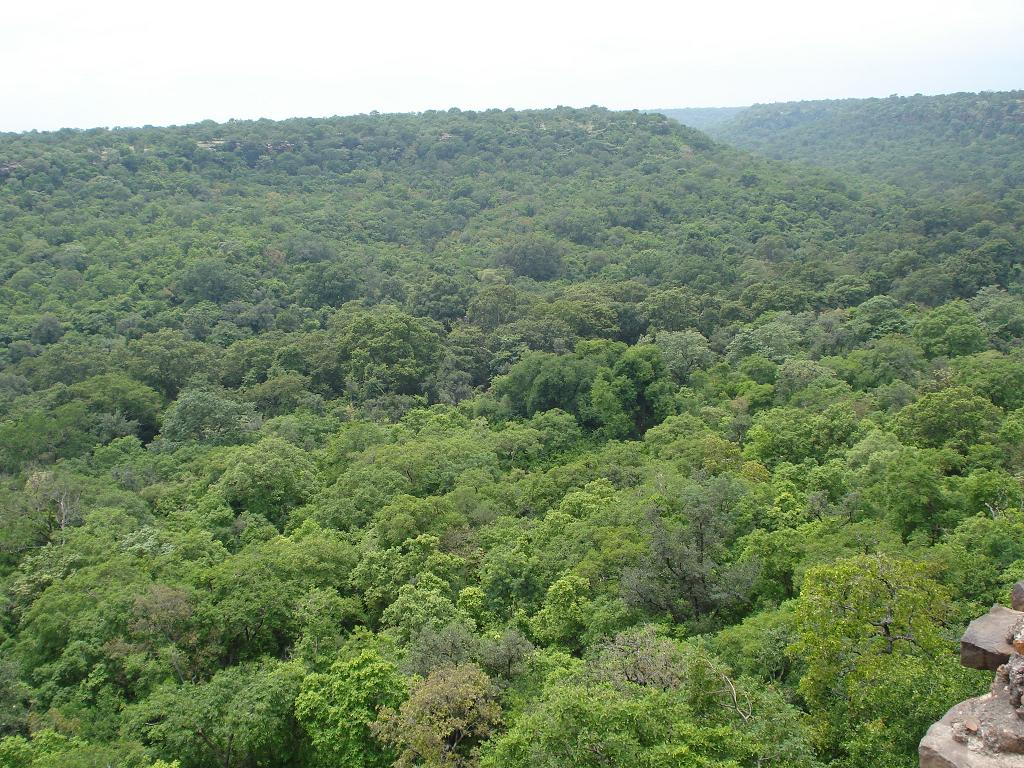 View of Forest around Hinglaj Fort in Mandsaur district in Madhya Pradesh, India